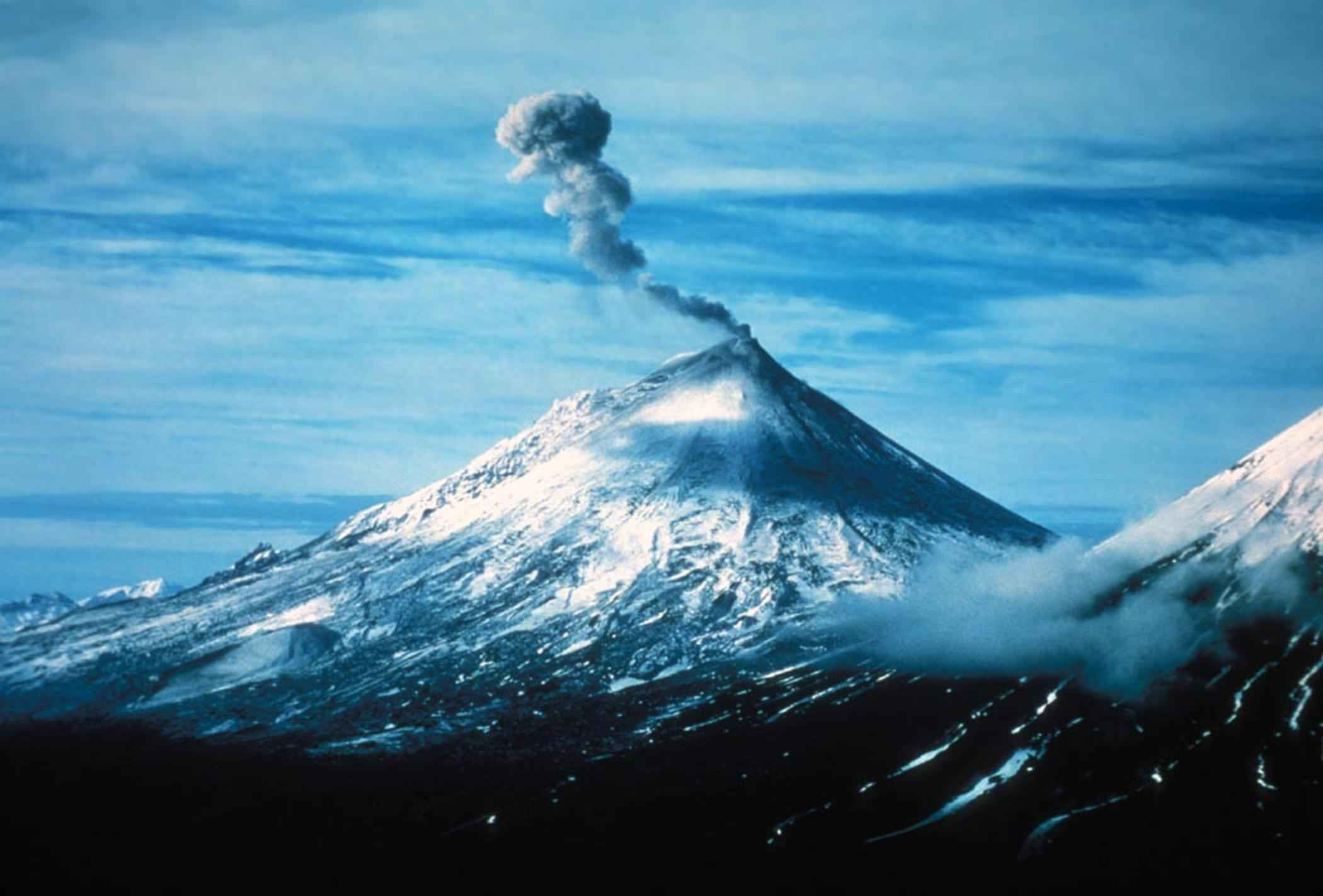 Image title: Pavlof volcano on the alaska peninsula eruption Image from Public domain images website